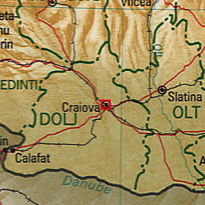 Map of Craiova Municipality, Romania.